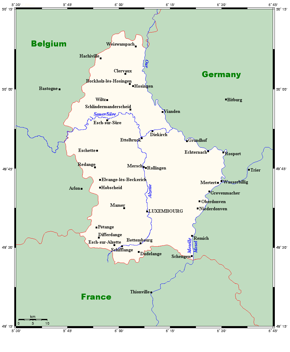 A map showing towns and rivers in Luxembourg, along with nearby areas.